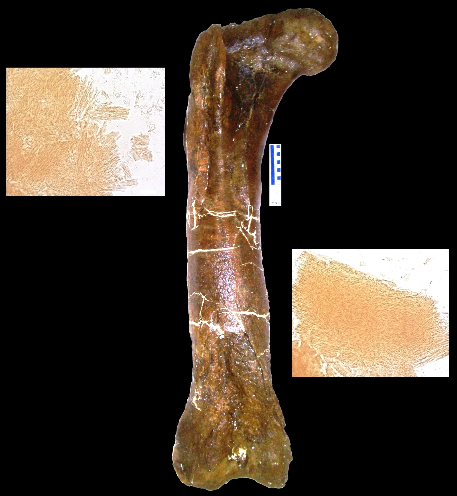 Tyrannosaurus rex femur (MOR 1125) from which demineralized matrix (insets; bars, 20 µm) and peptides were obtained. Courtesy Museum of the Rockies.